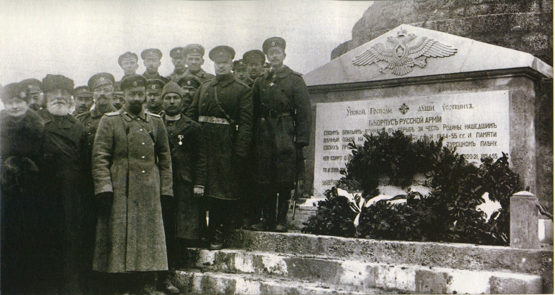 Gallipoli. The Monument, General Kutepov